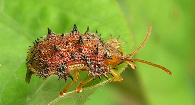 Hispid beetle (possibly near genus Platypria ) Wynaad Photograph by L. Shyamal, 2006